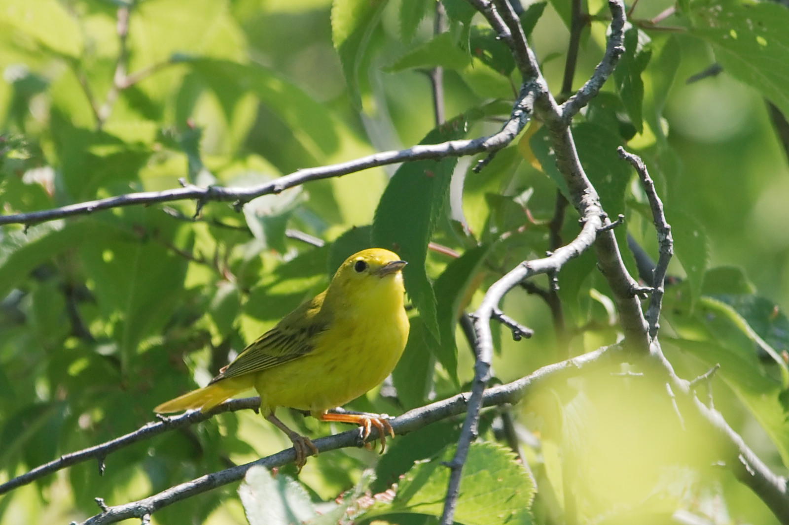 Adult male Yellow Warbler Dendroica aestiva. Horicon Marsh, Wisconsin (USA)